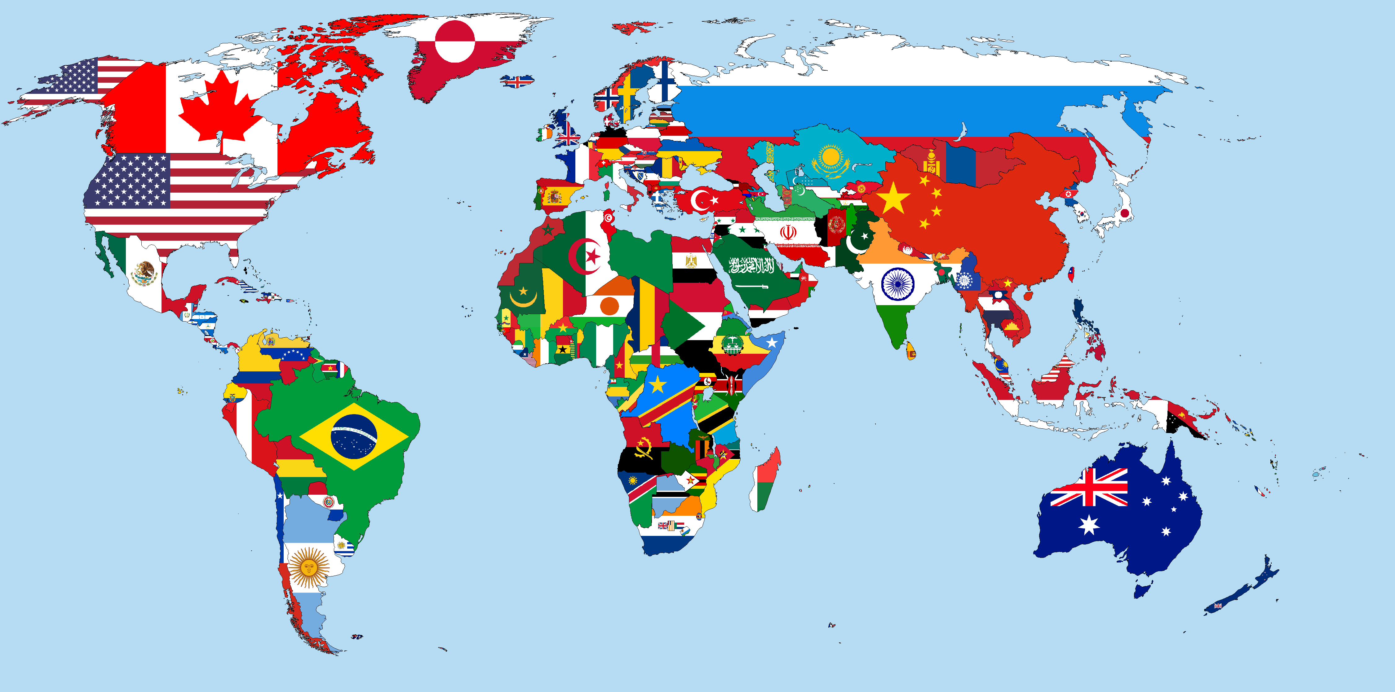 1993 Flags map